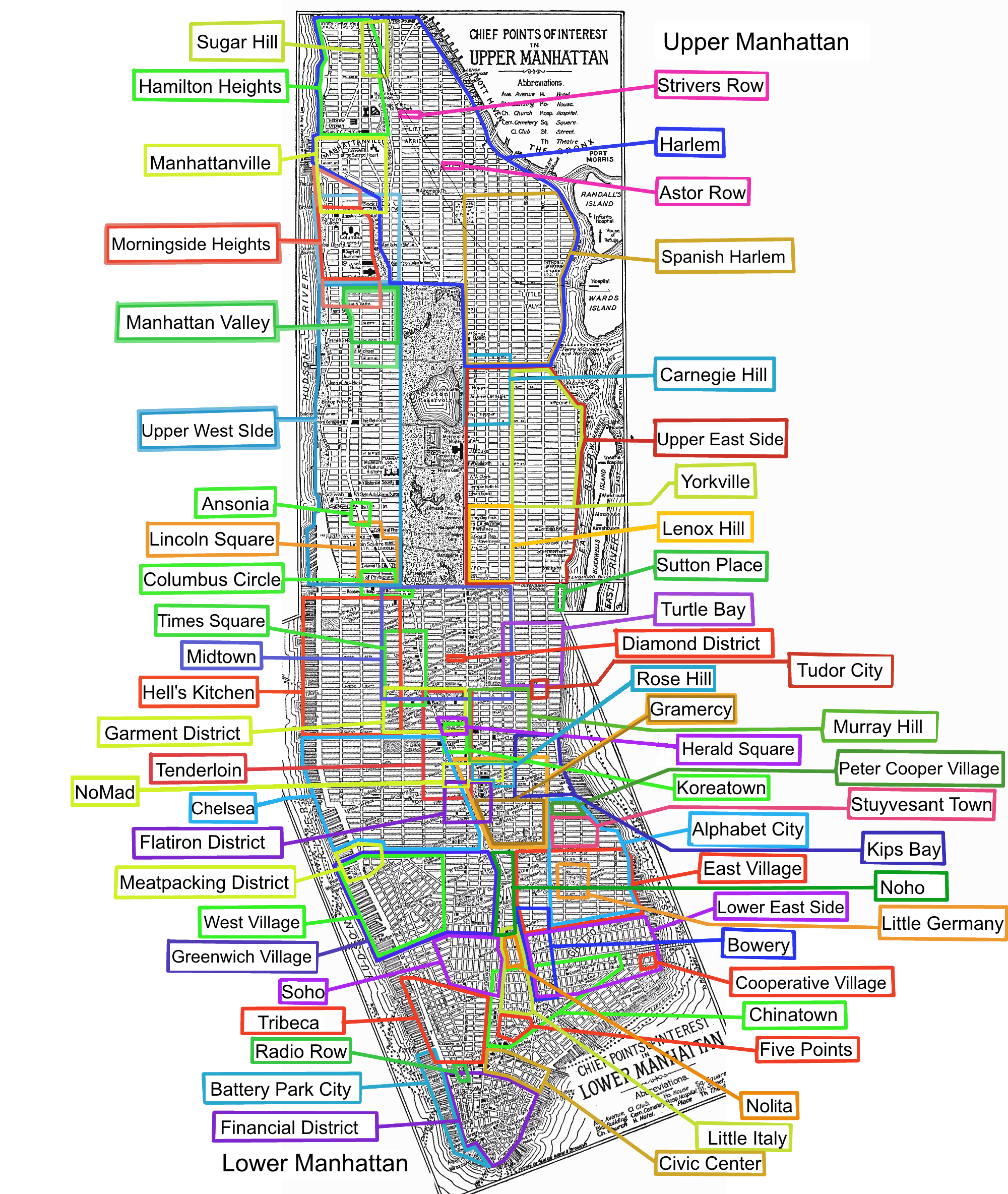 Approximate locations of some past and present neighborhoods as described on the articles on Template:Manhattan. Made from two 1920 public domain maps of Manhattan in the University of Texas collection, - base map here: Image:Manhattan 1920.png. Some of the neighborhoods are colored in two colors to show a narrow and broad definition, such as Gramercy. Not all of the names on the map itself are still current (such as "Little Italy" inside what is now Spanish Harlem, and Blackwell's Island, which is now Roosevelt Island).